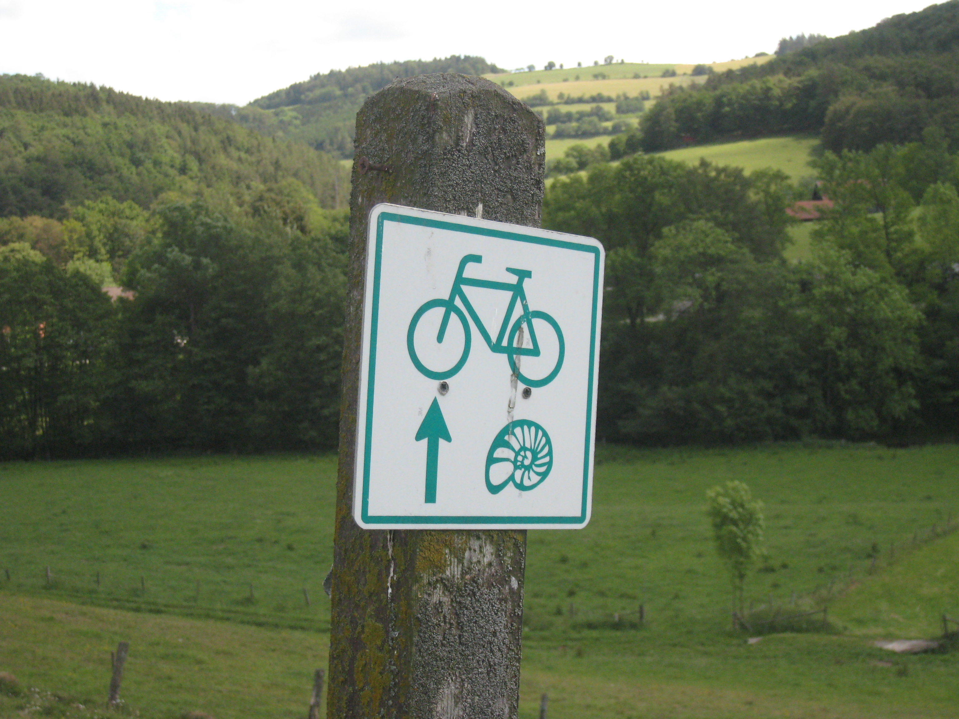 Waysign Diemel Cycle Path